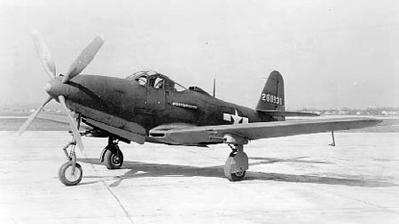 Bell P-63A